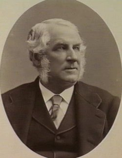 painted in 1888, of Sir George Ferguson Bowen. should apply.